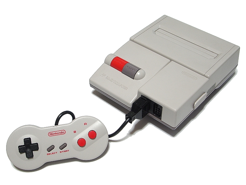 AV Family Computer(HVC-101) with controller (HVC-102).